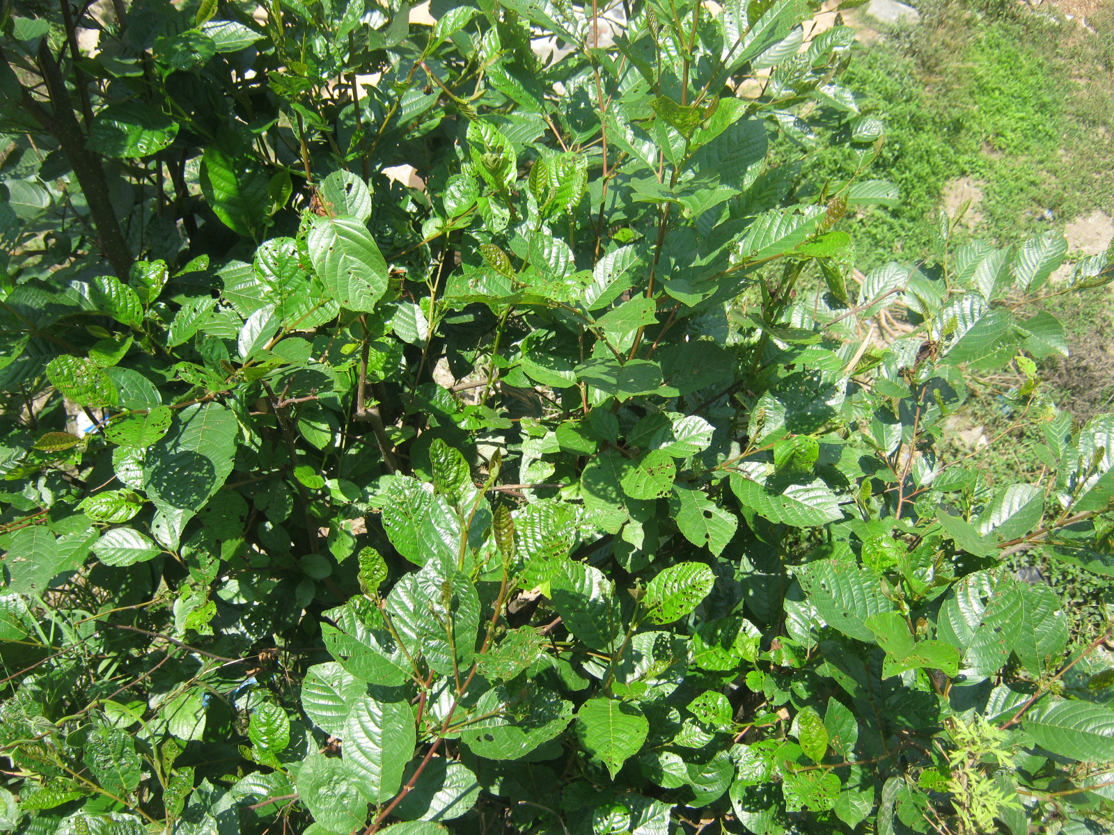 Alnus nepalensis in Panchkhal valley